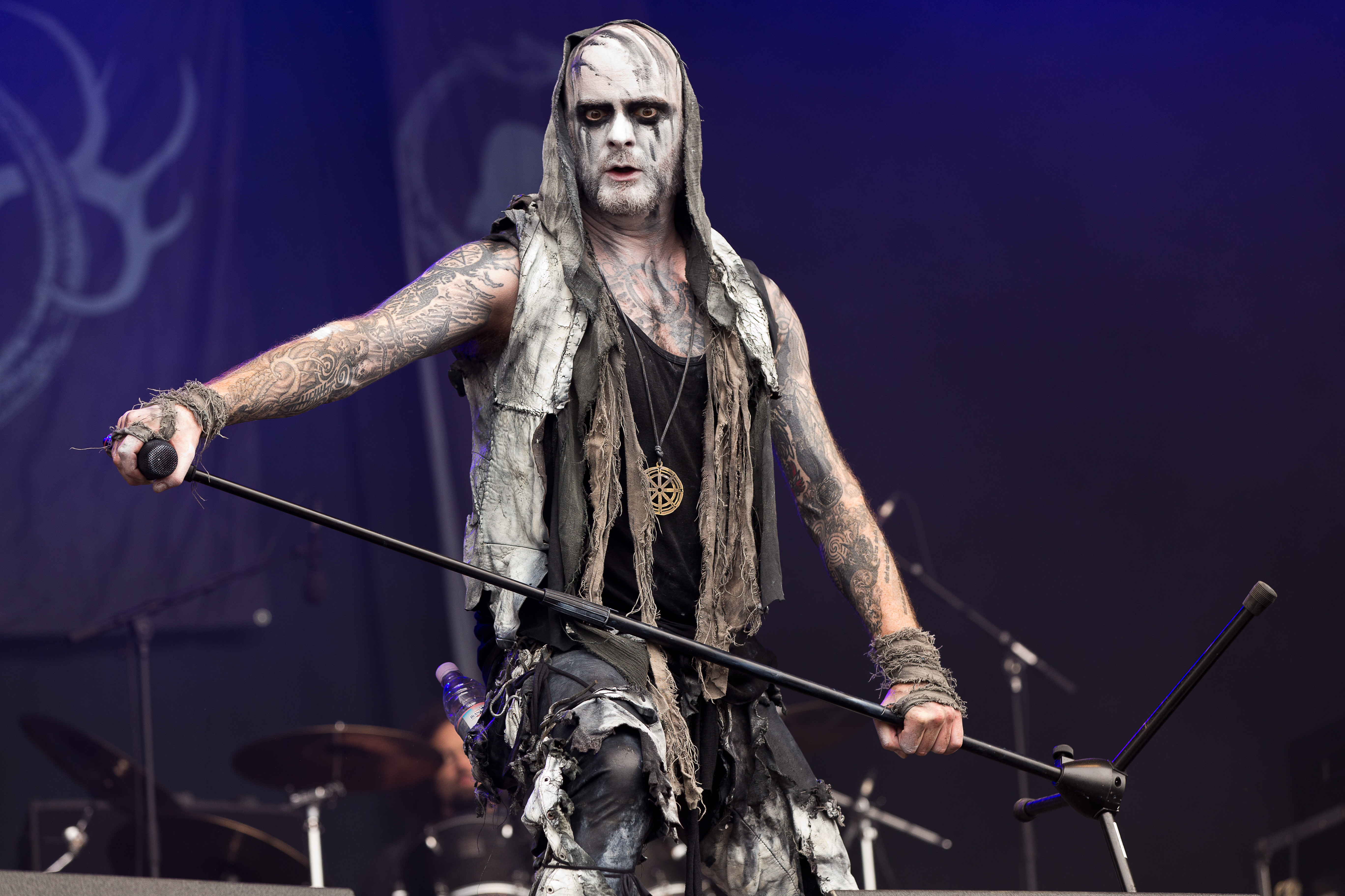 The Irish pagan metal band Primordial at the Rockharz Open Air 2016 in Ballenstedt/Germany.